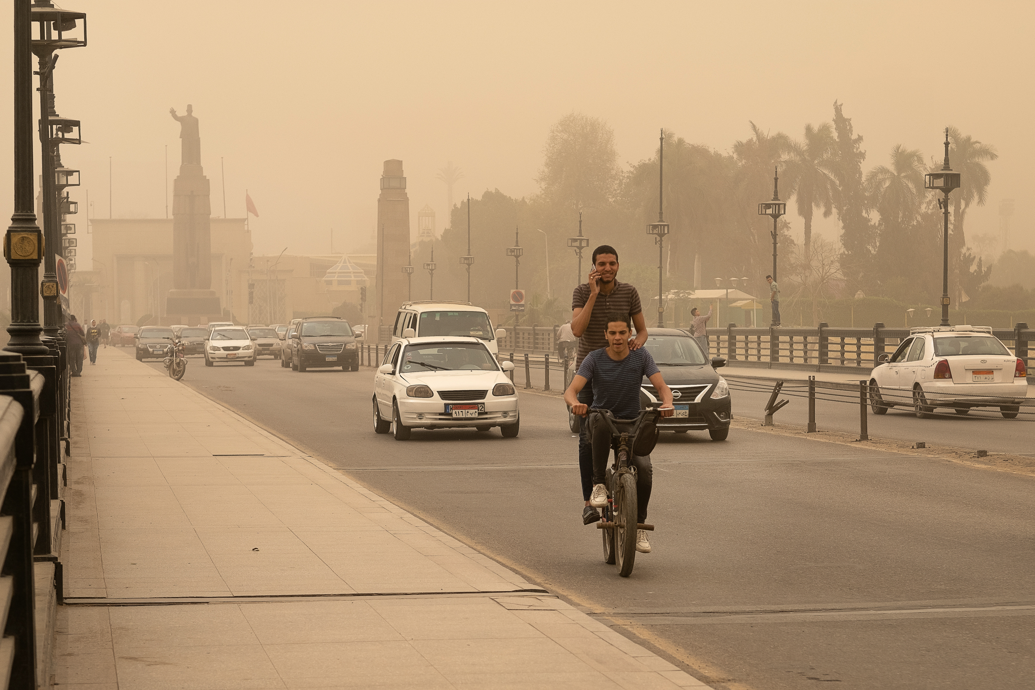 2 friends on one bike in center of cairo during sand storm This is an image with the theme "Africa on the Move or Transport" from: Egypt